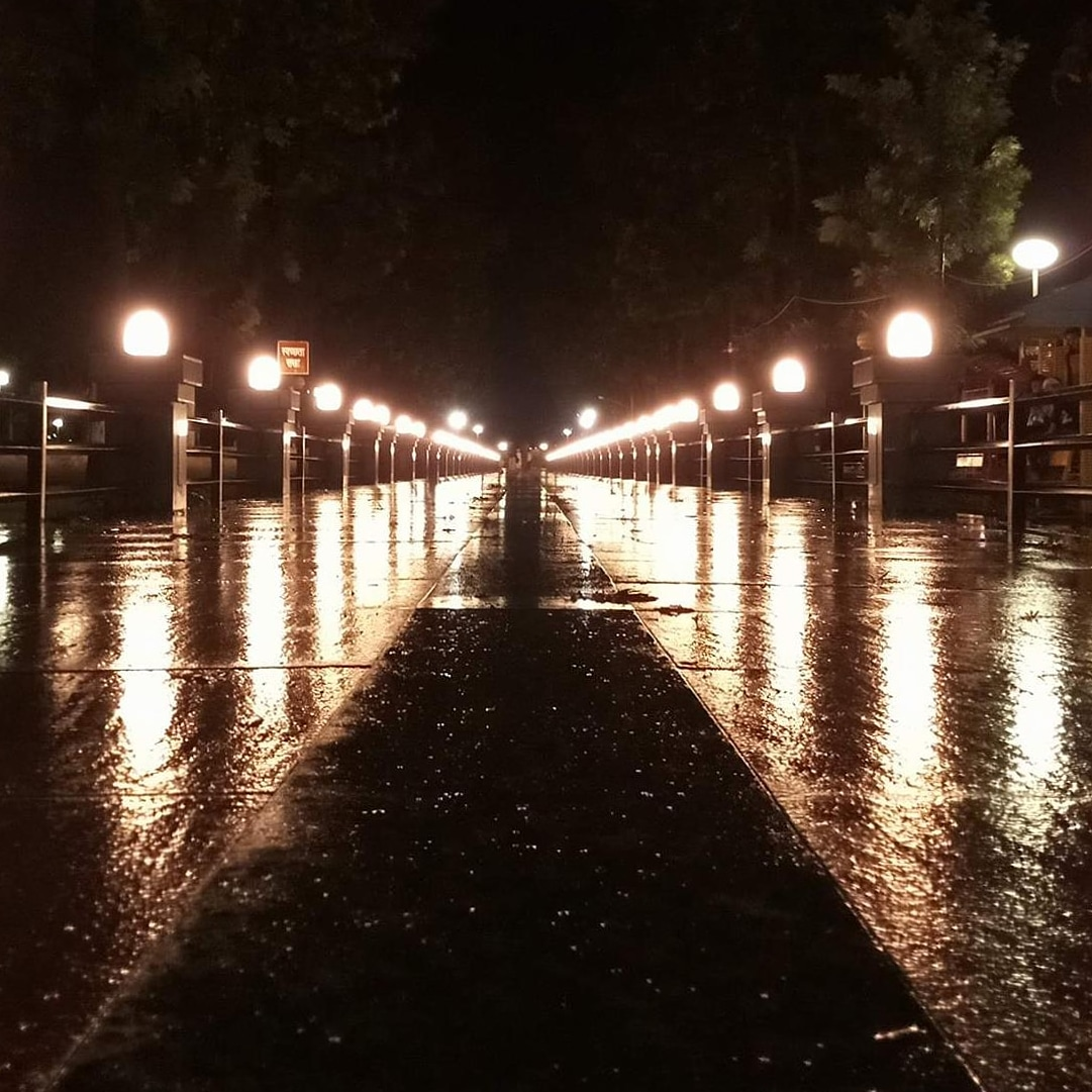 Karad